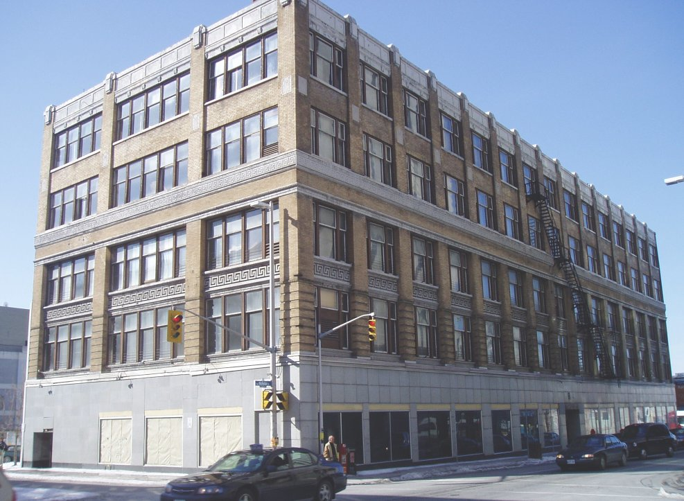 Taken by SimonP in April 2005